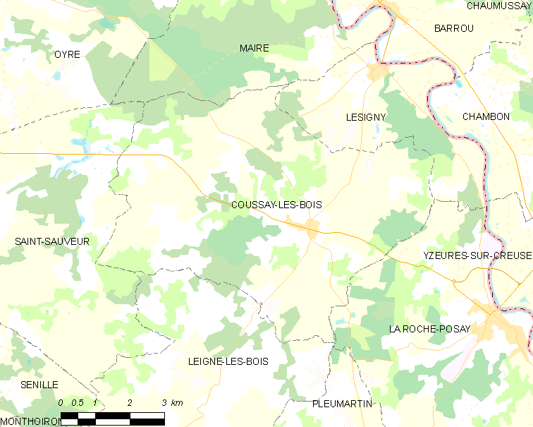 Map of French municipality Coussay-les-Bois